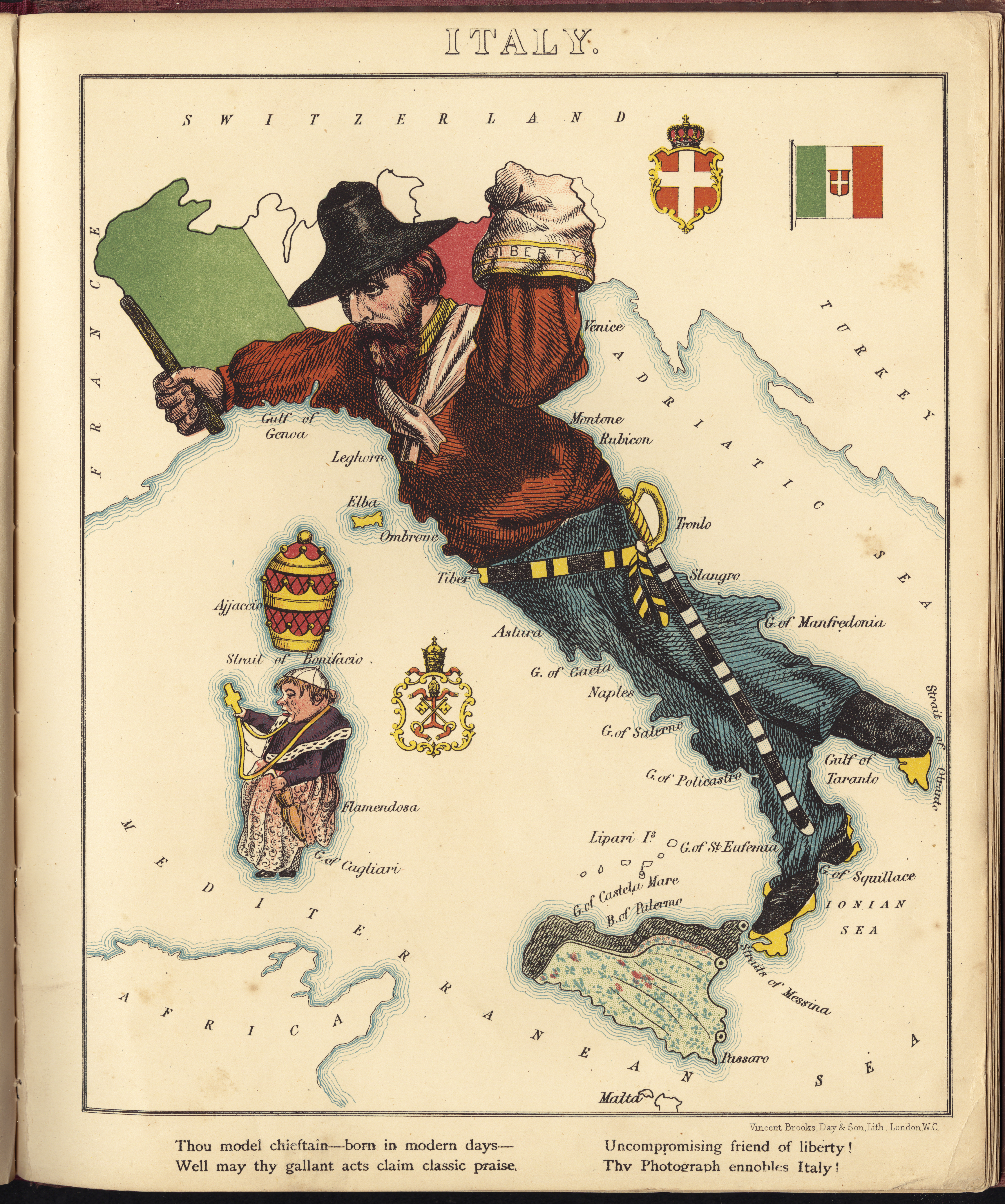 Drawn by Lilian Lancaster with descriptive lines by William Harvey. Appears in their Geographical fun: being humourous outlines of various countries, [1868 or 1869]. Zoom into this map at . Author: Harvey, William Publisher: Hodder and Stoughton Date: 1868 Location: Italy Dimensions: 24 x 20 cm. Scale: [ca. 1:5,800,000] Call Number: G1046.A6 H378 1868